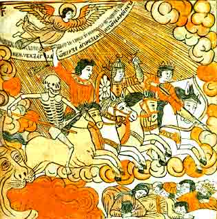 Four riders of the Apocalypse. Illustration from the first Russian engraved Bible.